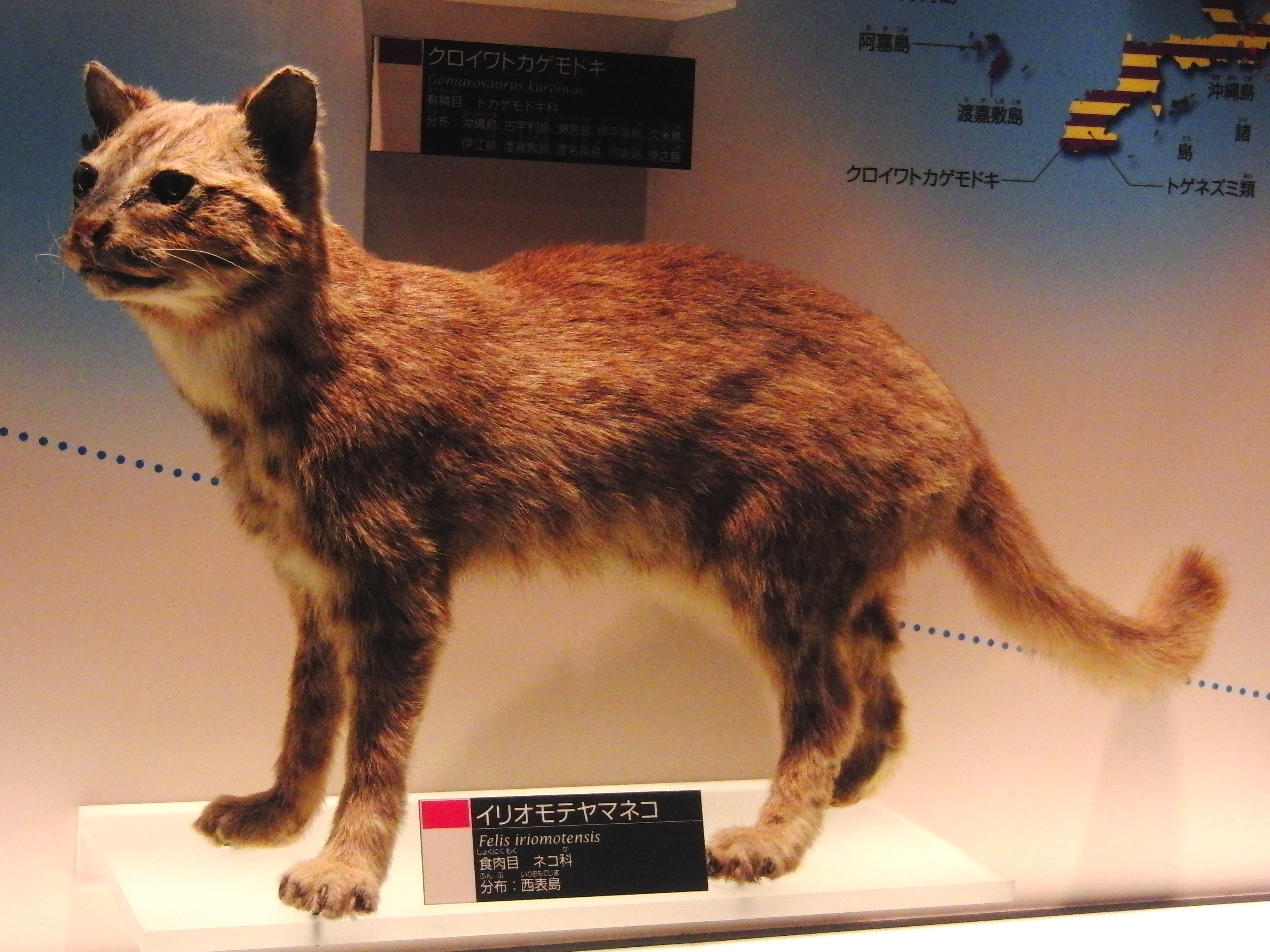 Stuffed specimen of Iriomote cat (Felis iriomotensis). Exhibit in the National Museum of Nature and Science, Tokyo, Japan.